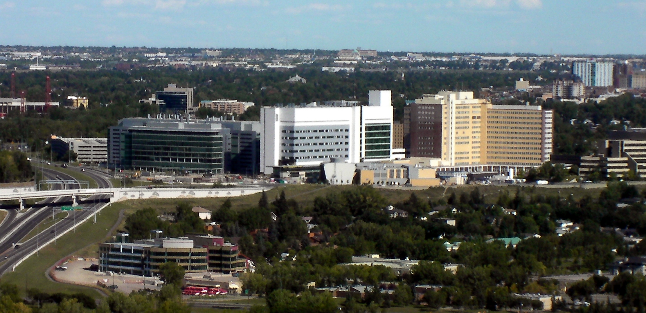 Foothills Hospital seen from Cougar Ridge in Calgary, Alberta, Canada